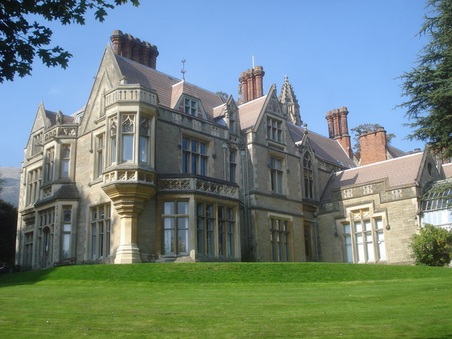 The Council House, Church Street, Great Malvern, Worcestershire